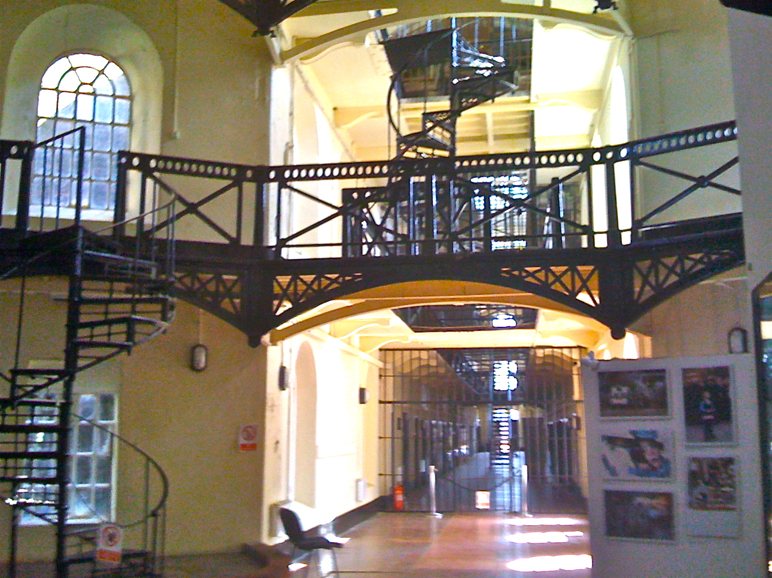 Crumlin Road Gaol interior